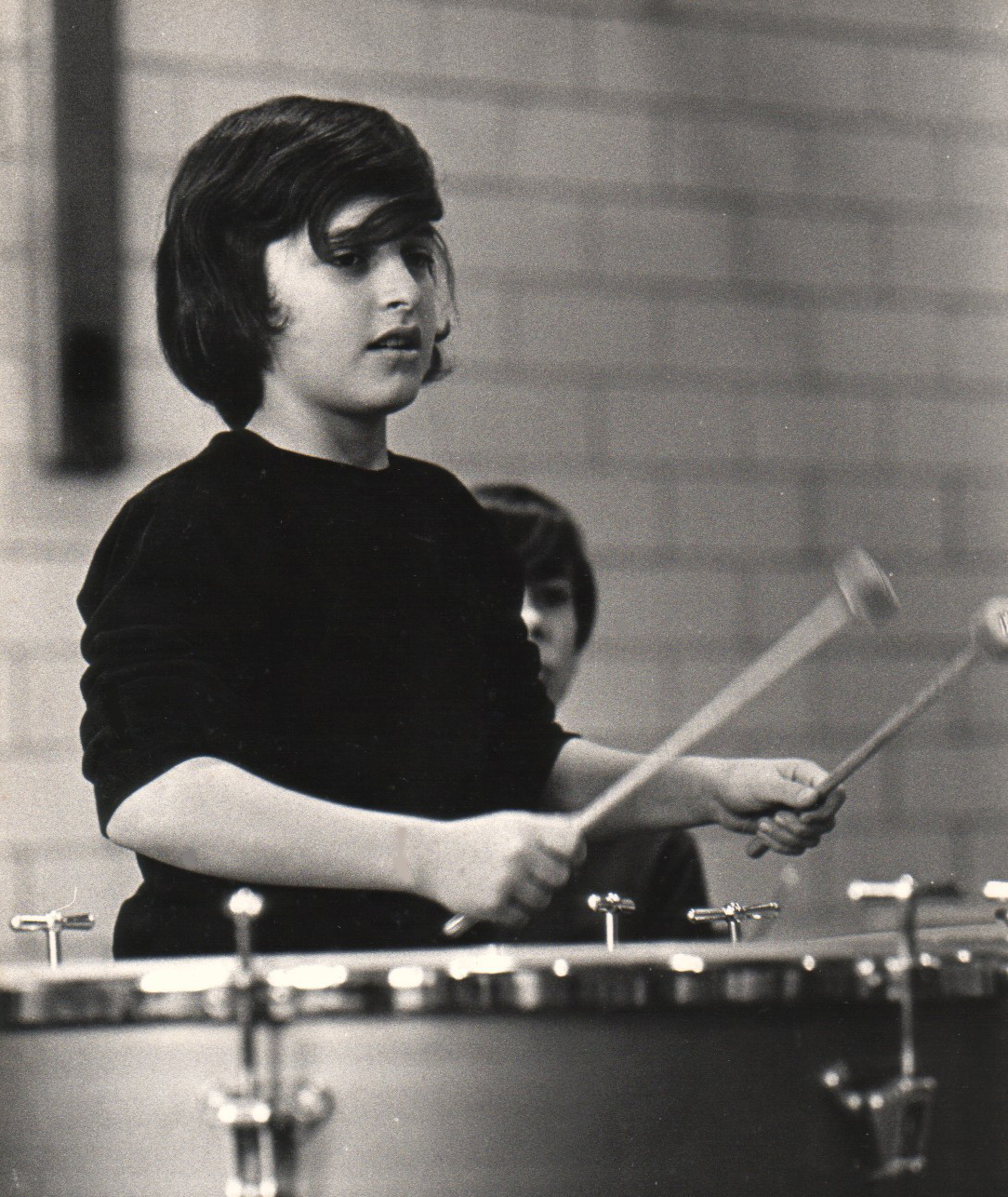 Bayard playing timpani at age 14 in black and white